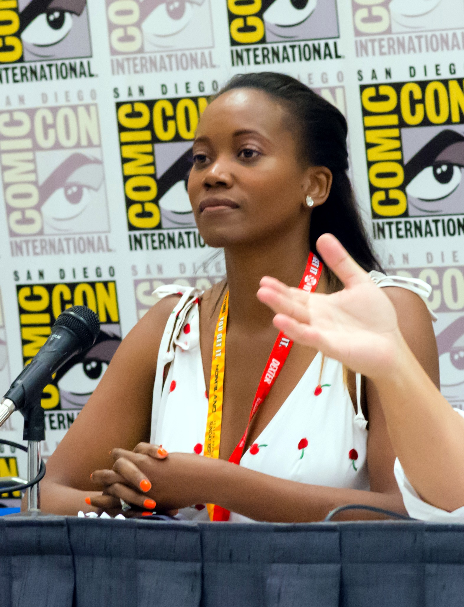 Erika Alexander at Comic-Con 2012